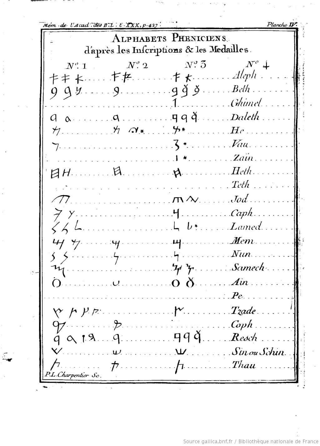 Barthélémy Alphabet phénicien